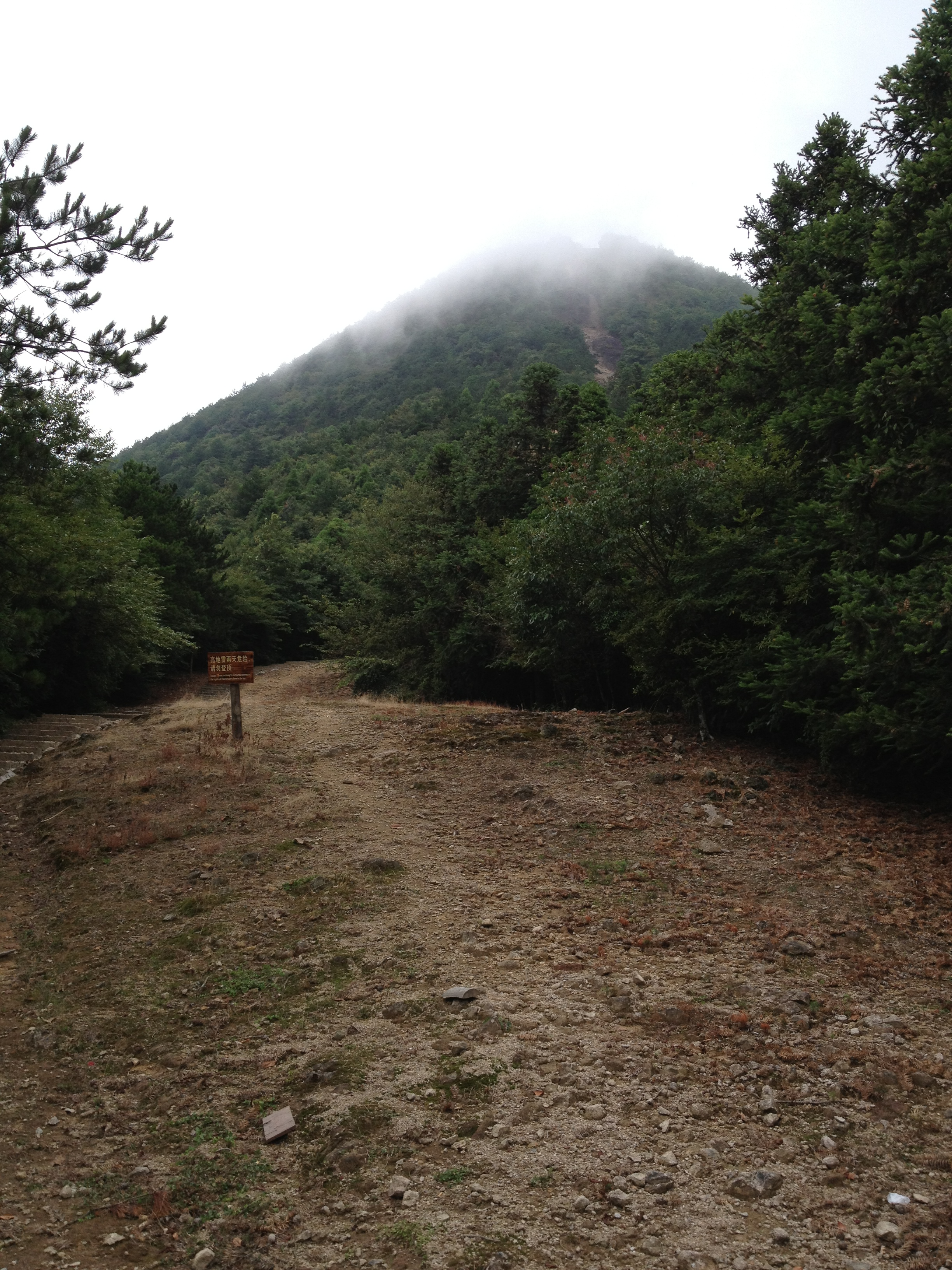 Baiyun Peak (白云尖), Wuyanling National Nature Reserve, Taishun, Wenzhou, Zhejiang, PR China. View up the ridge leading to the peak.